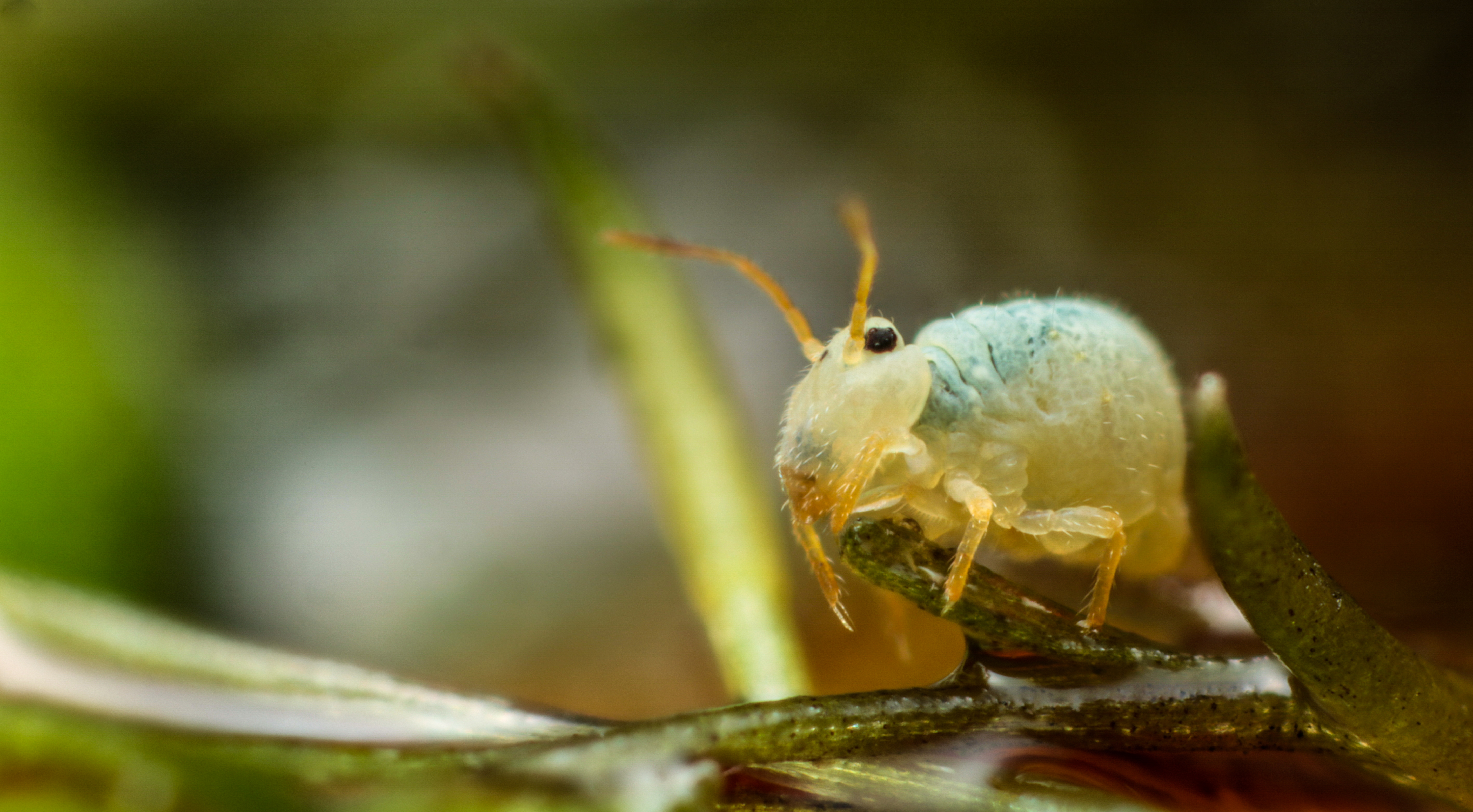 A female Sminthurides aquaticus. Original description on Flickr: A female Sminthurides aquaticus on my pond, taking it easy, making it possible for some sneaky stacks. This one is only a four photo stack, taken at around x12 I reckon. And also with the new flash system. The twin lite is dead. Long live the speedlite...